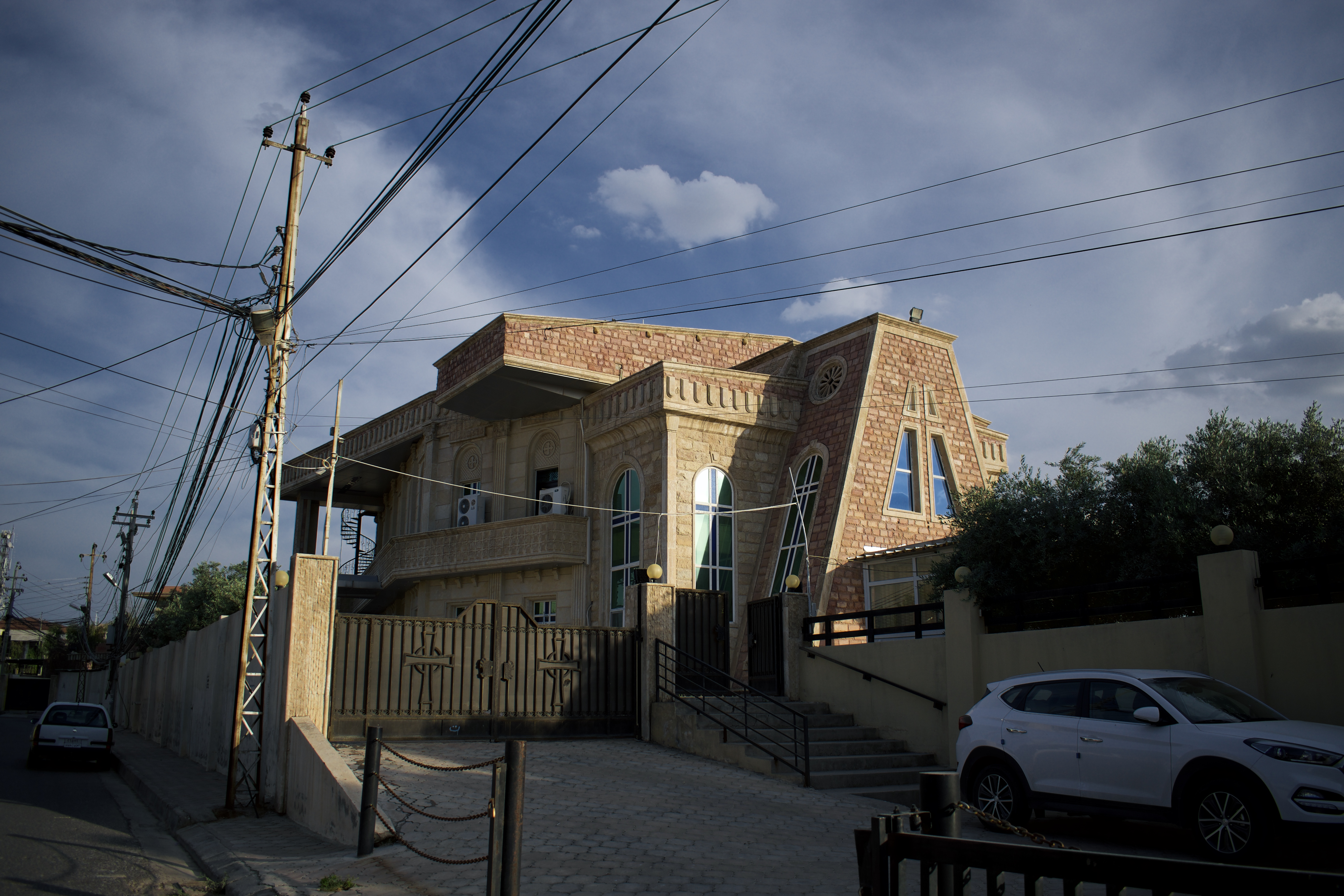 Cathedral of Saint John the Baptist for the Assyrian Church of the East in Ankawa